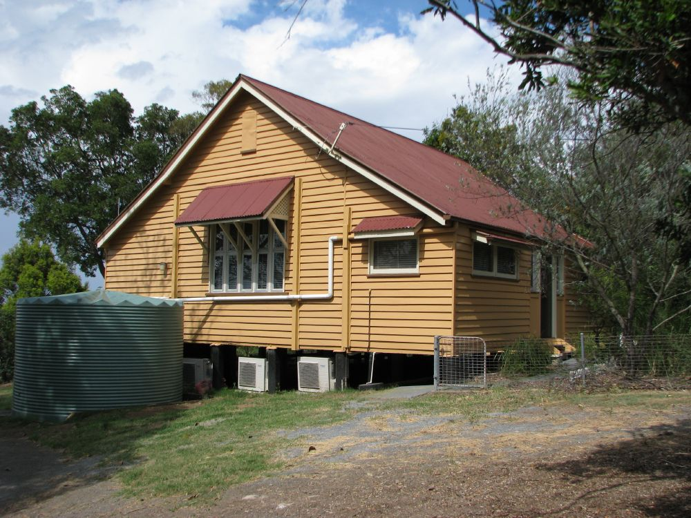 Tallegalla State School (former) (2009) - rear view